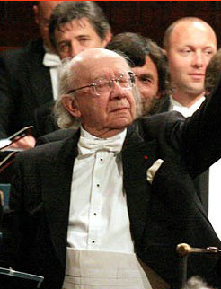 The image of Russian conductor Gennady Rozhdestvensky